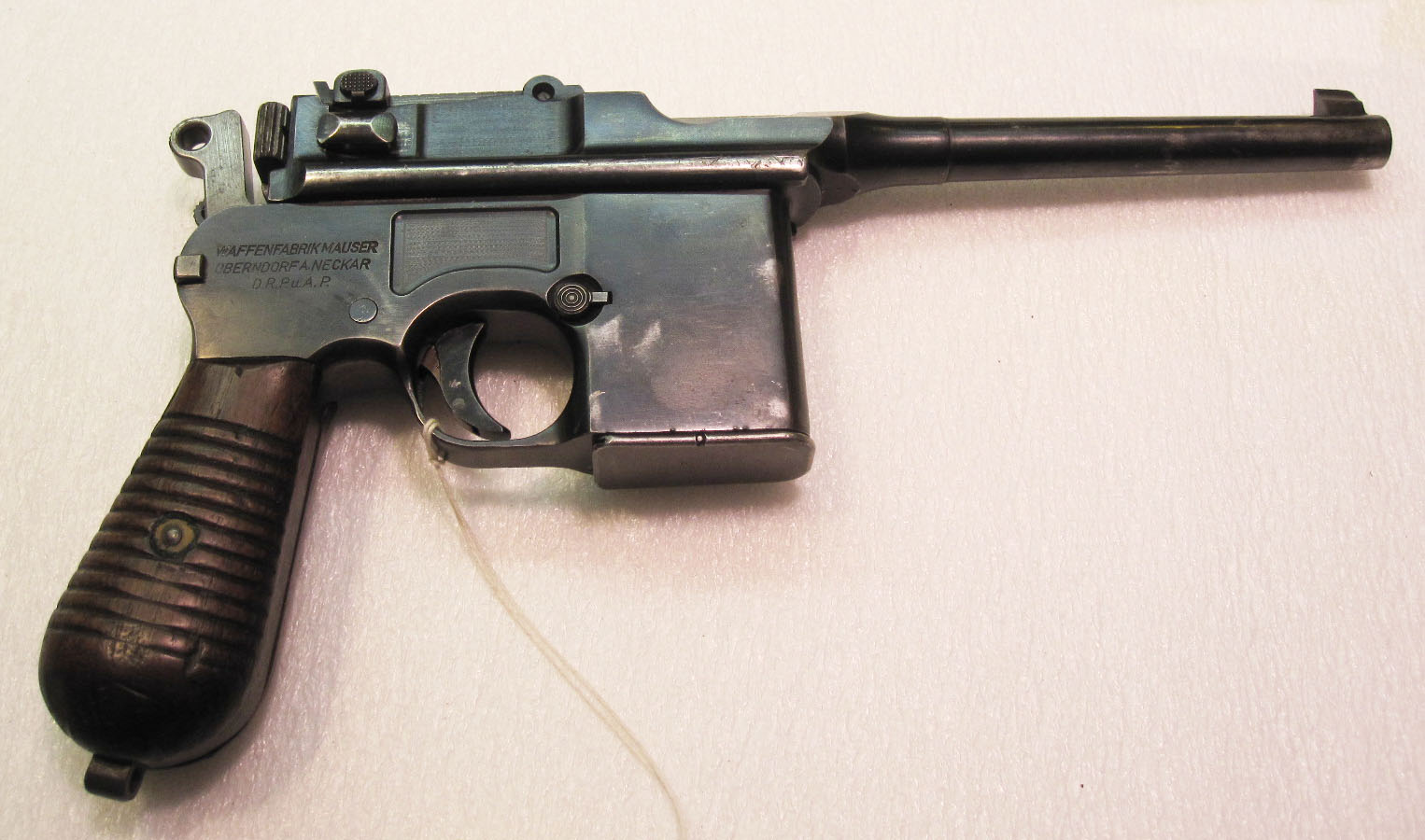 Accession: 95-79-A Pistol Cal 7.65MM, German, Mauser Model 712. Pistol was recovered by Lt John Millard Weeks, US Gunnery Officer, USS Ellyson DD-454, following allied invasion of Normandy June 1944. Pistol was found in an abandoned german defensive bunker. Collection of Curator Branch, Naval History and Heritage Command.